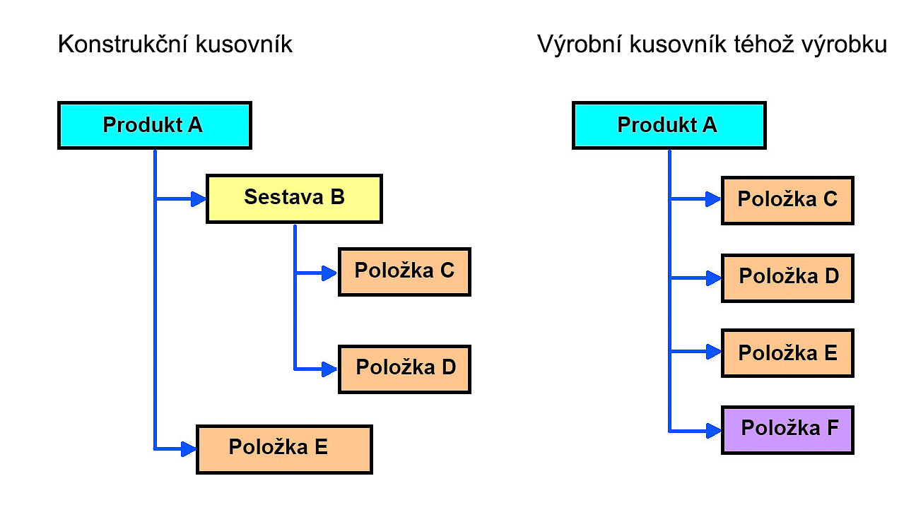 simple eBOM and mBOM compared